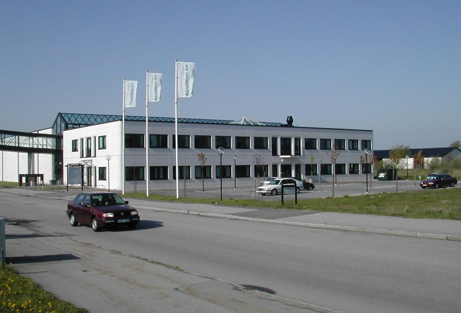 Arkivcentrum Syd in Lund, one of Sweden's largest constructions for archival storage, run jointly by a number of governmental, municipal and private archival institutions. Photographer: Fredrik Tersmeden (= User:FredrikT), spring 2004.